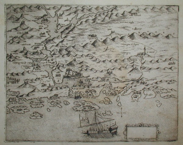 Map of Sebenico in Dalmatia by Martin Rota Kolunic, engraved by Camocio